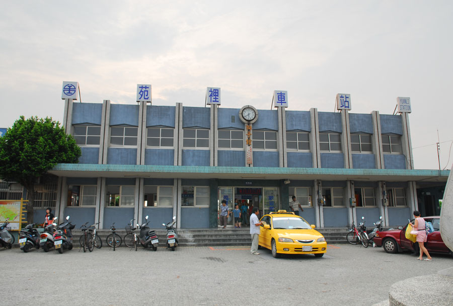 Yuanli Station is a local train station of Taiwan's Western main rail line. It's the main station of YuanLi Town, Miaoli County.